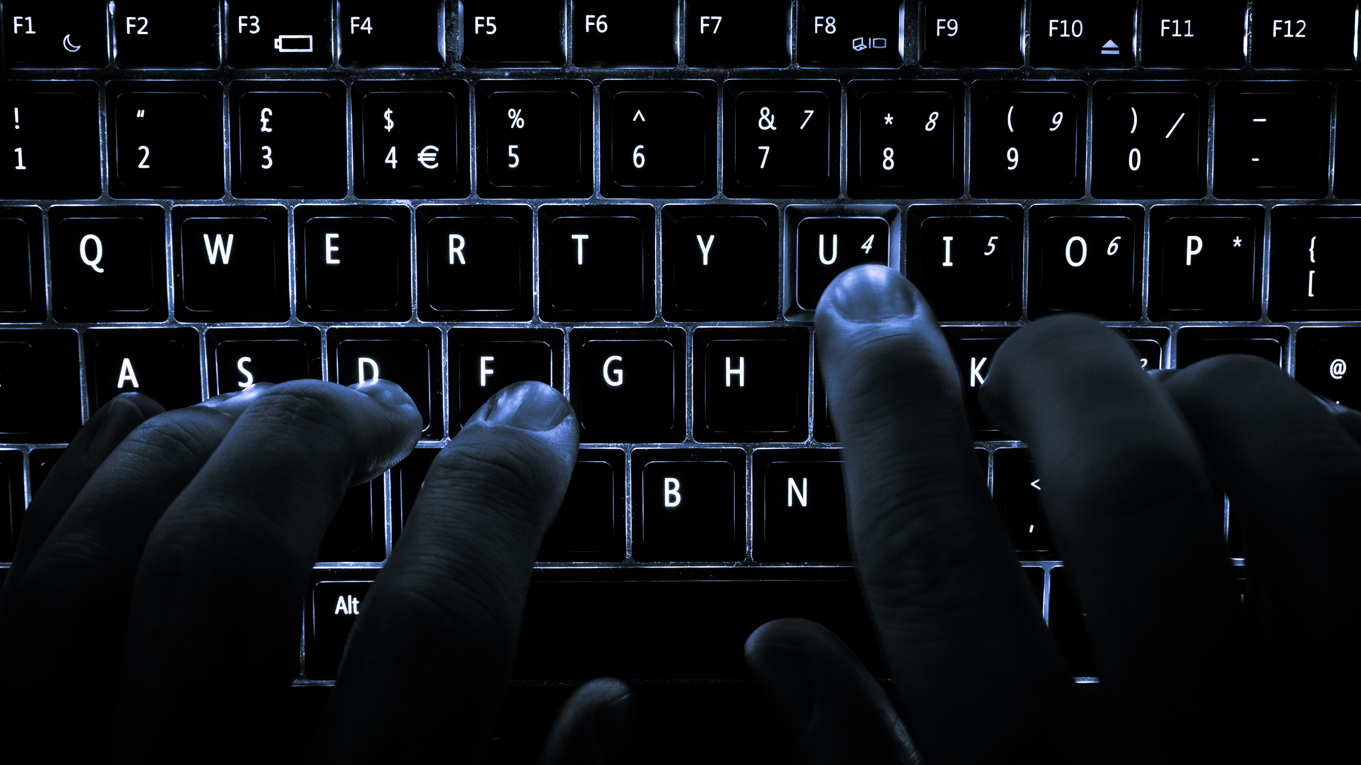 A backlit laptop computer keyboard. Most fingers are on the "home" keys for touch-typing; the 'U' key is being pressed.